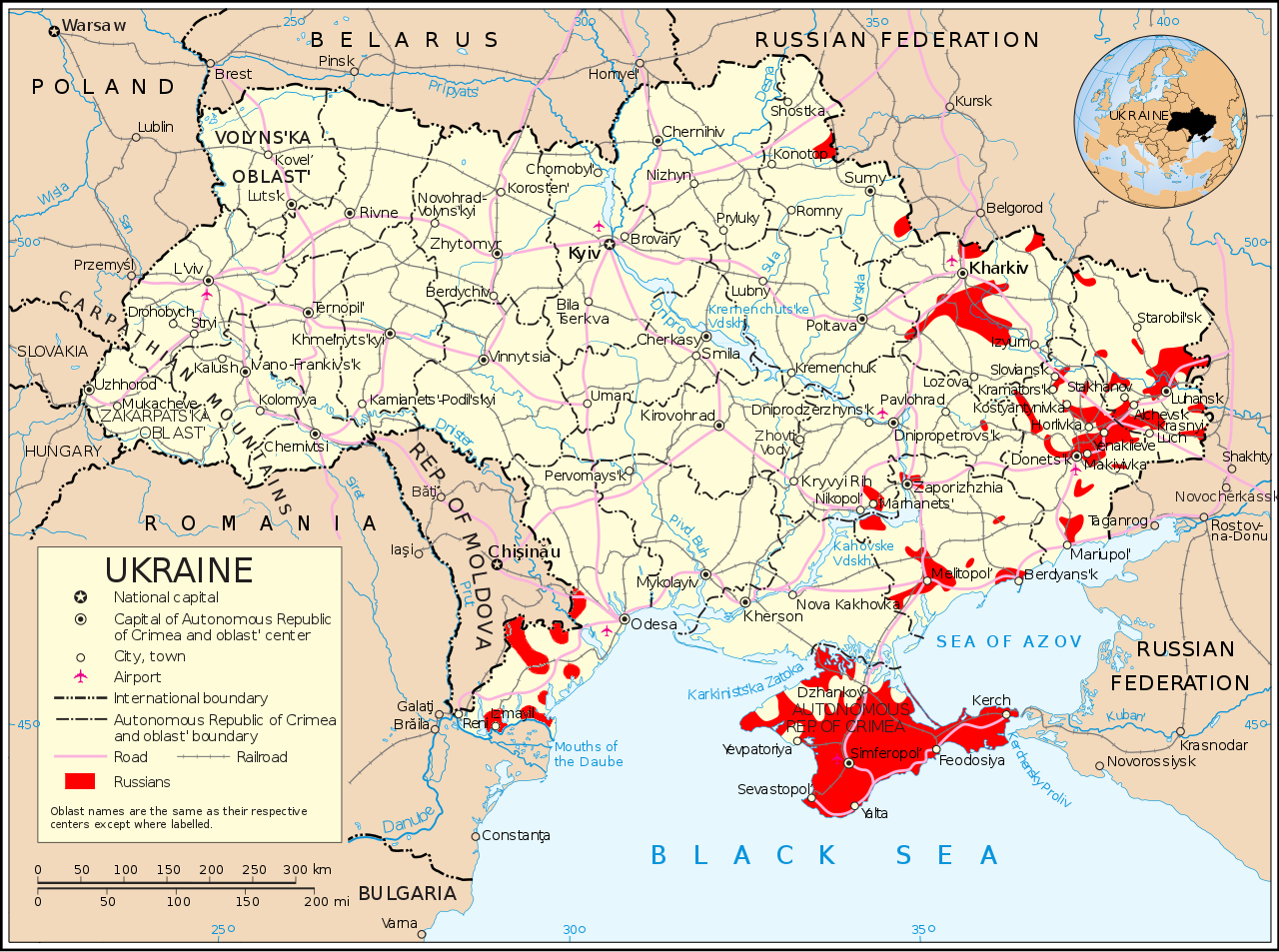 Russians in Ukraine since File:Ukraine populations.svg and File:Russians ethnic 94.jpg, improved with the Russians of Budzak since Russian language in Ukraine